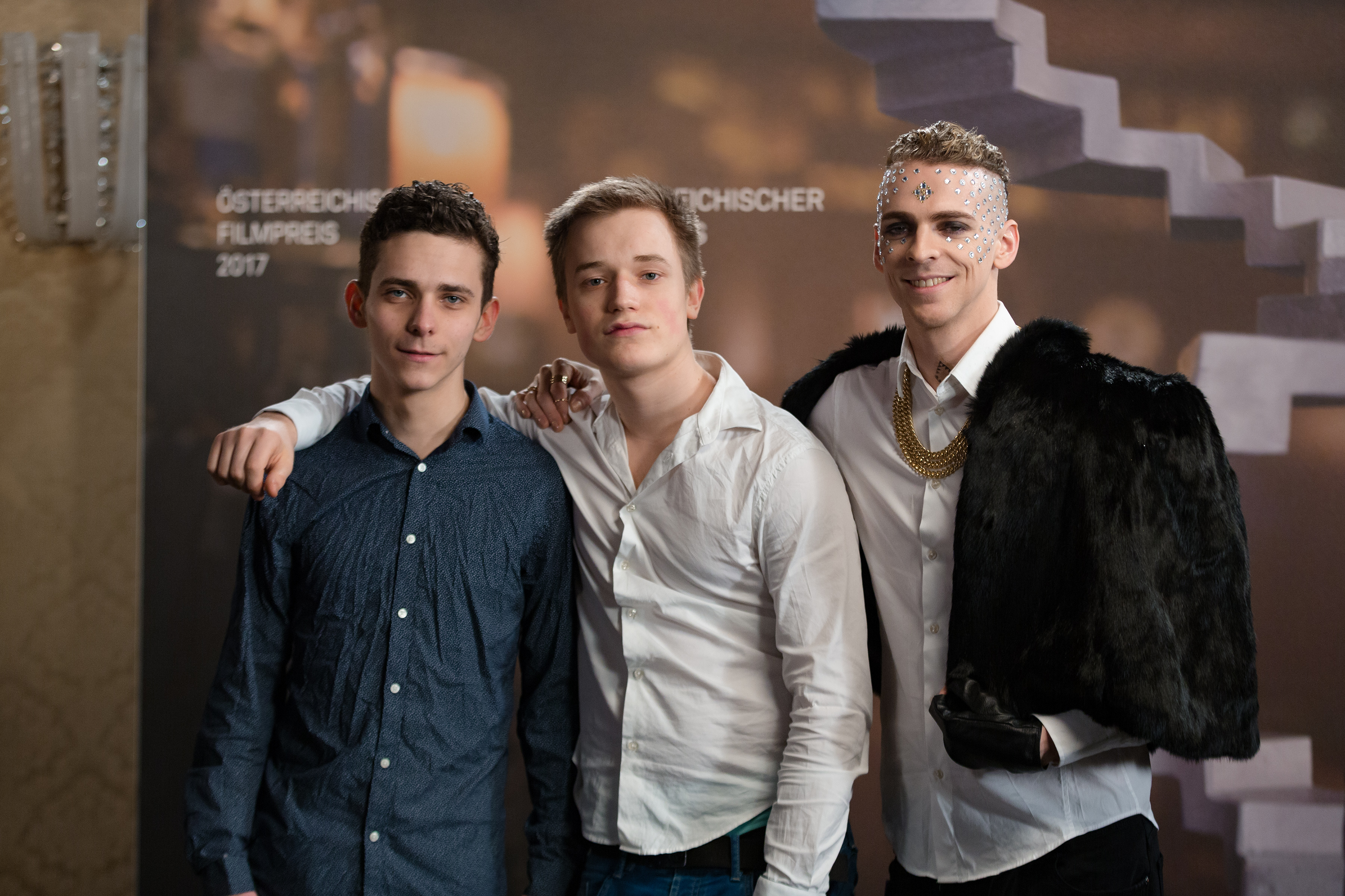 Philipp Fussenegger (r.), writer and director of Henry, with actors Nino Böhlau (l.) and Lukas Till Berglund at the Austrian Film Awards 2017 (Rathaus, Vienna,Austria).